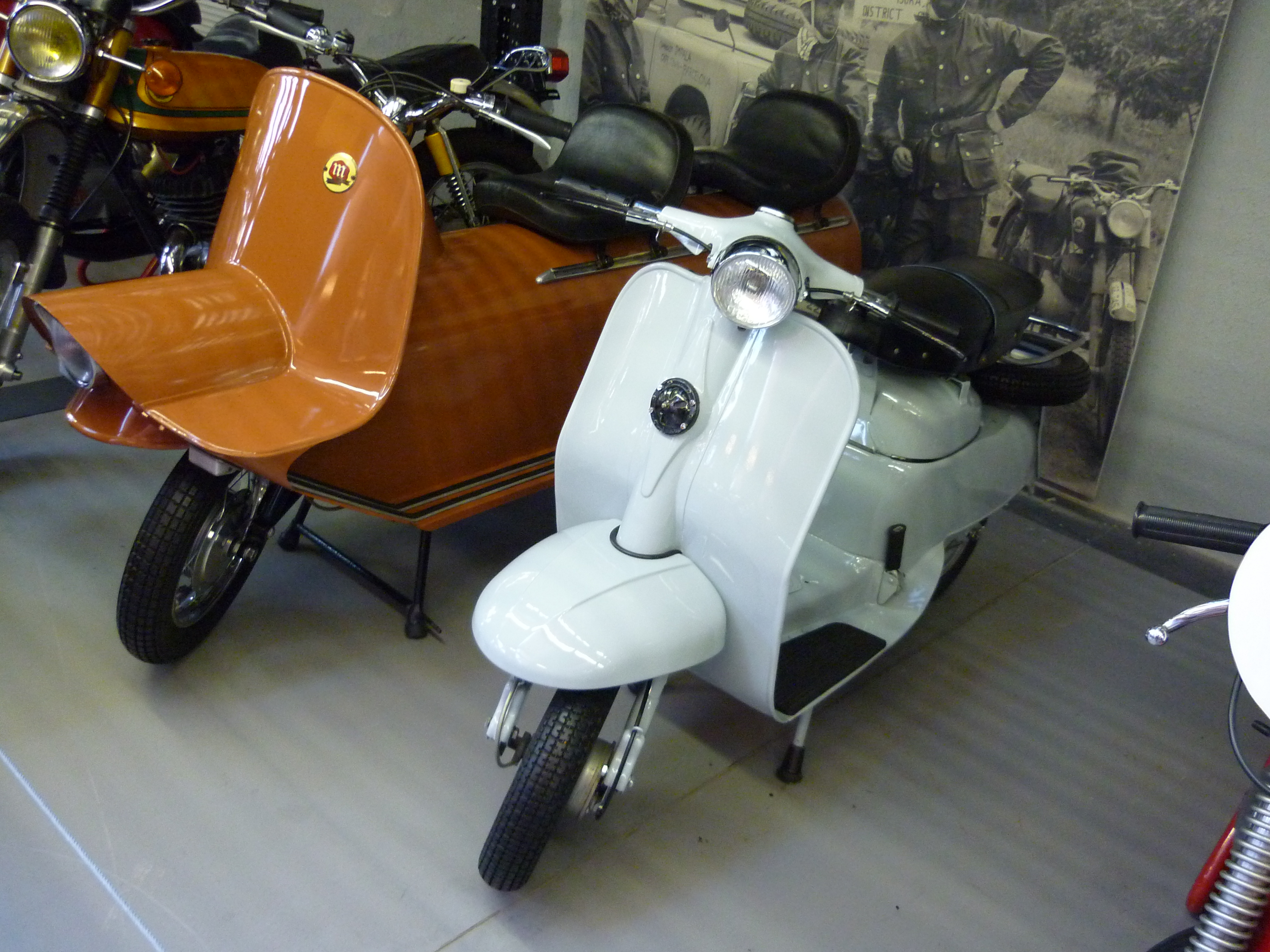 Montesa Fura (scooter) in brown, from 1958, and Microscooter in white, from 1963